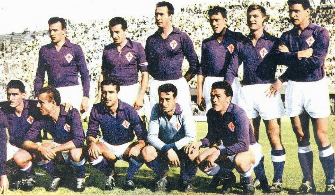 A line-up of A.C. Fiorentina in the 1955–56 season. From left to right, standing: S. Cervato, F. Rosetta (captain), B. Mazza, A. Magnini, G. Virgili, G. Gratton; crouched: Júlio Botelho "Julinho", G. Chiappella, A. Segato, G. Sarti, M. Montuori.